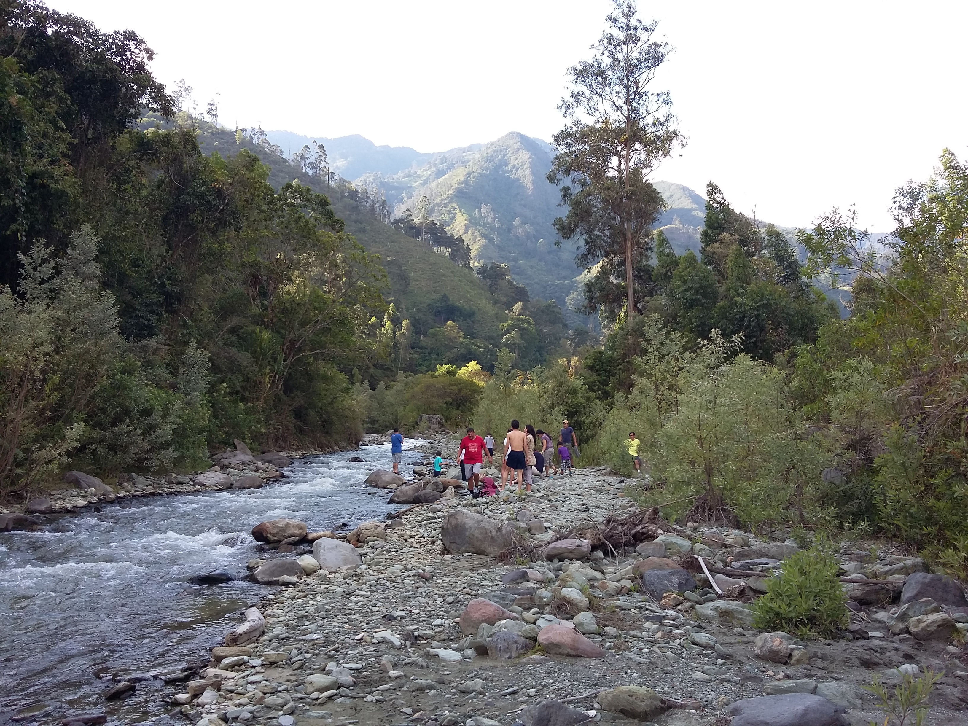 Municipio de Ibagué, vereda Villa Restrepo, Hotel Iguaima. It´s not a national park, yet. Esta fotografía fue tomada en un área protegida de Colombia con el código 730018 del RUNAP.